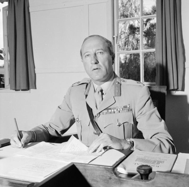 Lieutenant General Sir Gerald Lathbury who succeeded Lieutenant General Sir George Erskine as Commander-in-Chief, East Africa, in May 1955. Lathbury made greater use of special forces tactics against the Mau Mau including using captured insurgents for intelligence gathering.